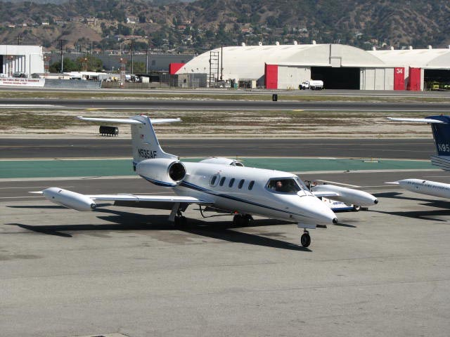 Ameriflight Lear35A jet at Burbank Airport, CA